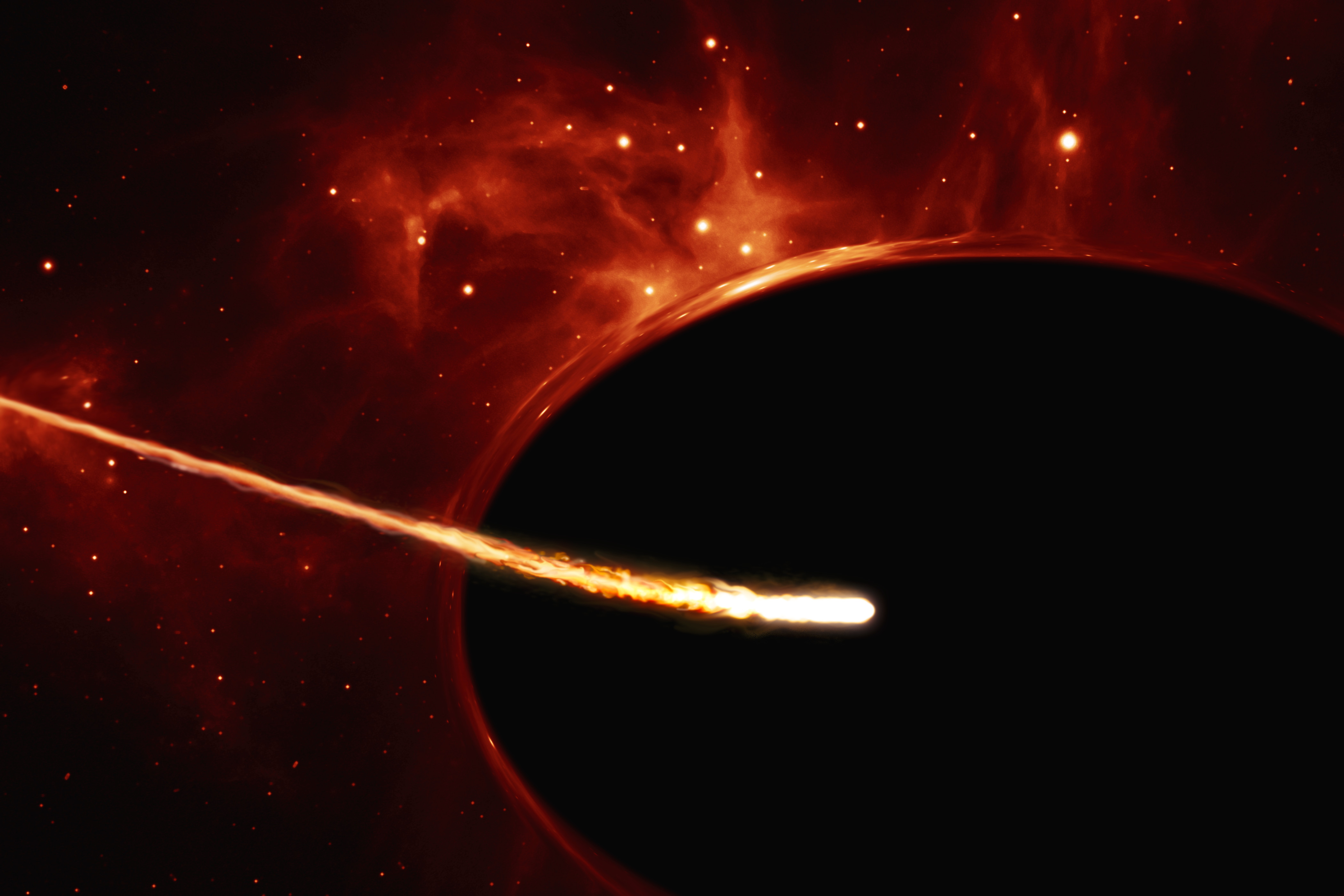 This artist’s impression depicts a Sun-like star close to a rapidly spinning supermassive black hole, with a mass of about 100 million times the mass of the Sun, in the centre of a distant galaxy. Its large mass bends the light from stars and gas behind it. Despite being way more massive than the star, the supermassive black hole has an event horizon which is only 200 times larger than the size of the star. Its fast rotation has changed its shape into an oblate sphere. The gravitational pull of the supermassive black hole rips the the star apart in a tidal disruption event. In the process, the star was “spaghettified” and shocks in the colliding debris as well as heat generated in accretion led to a burst of light.